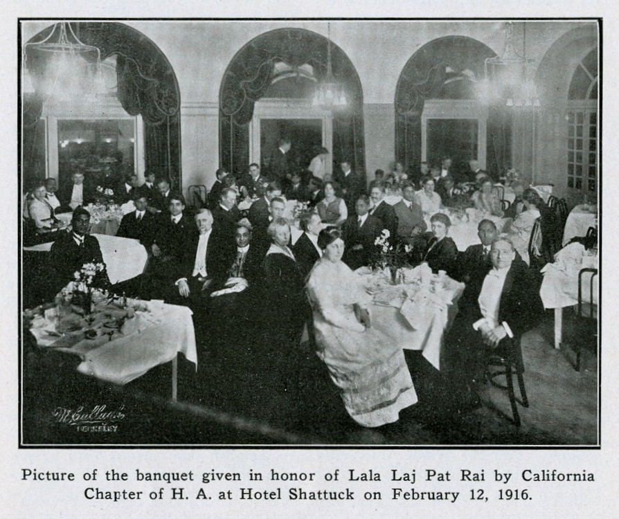 Photograph of banquet given in honor of Lala Lajpat Rai by the California Chapter of the Hindustan Association of America at Hotel Shattuck on February 12, 1916. The photo was printed in March 1916 issue of The Hindusthanee Student. (Location: 2086 Allston Way, Berkeley, California)